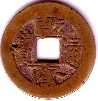 Text reads: Currency [of the] Qianlong [era] Old Chinese coin made during the reign of Qianlong Emperor (1735-1796) in Qing Dynasty. The coin has a hole in it so buyers and sellers could place a certain number of coins on a rope rather than counting them out one by one. Scanned by Grutness who released it into public domain.